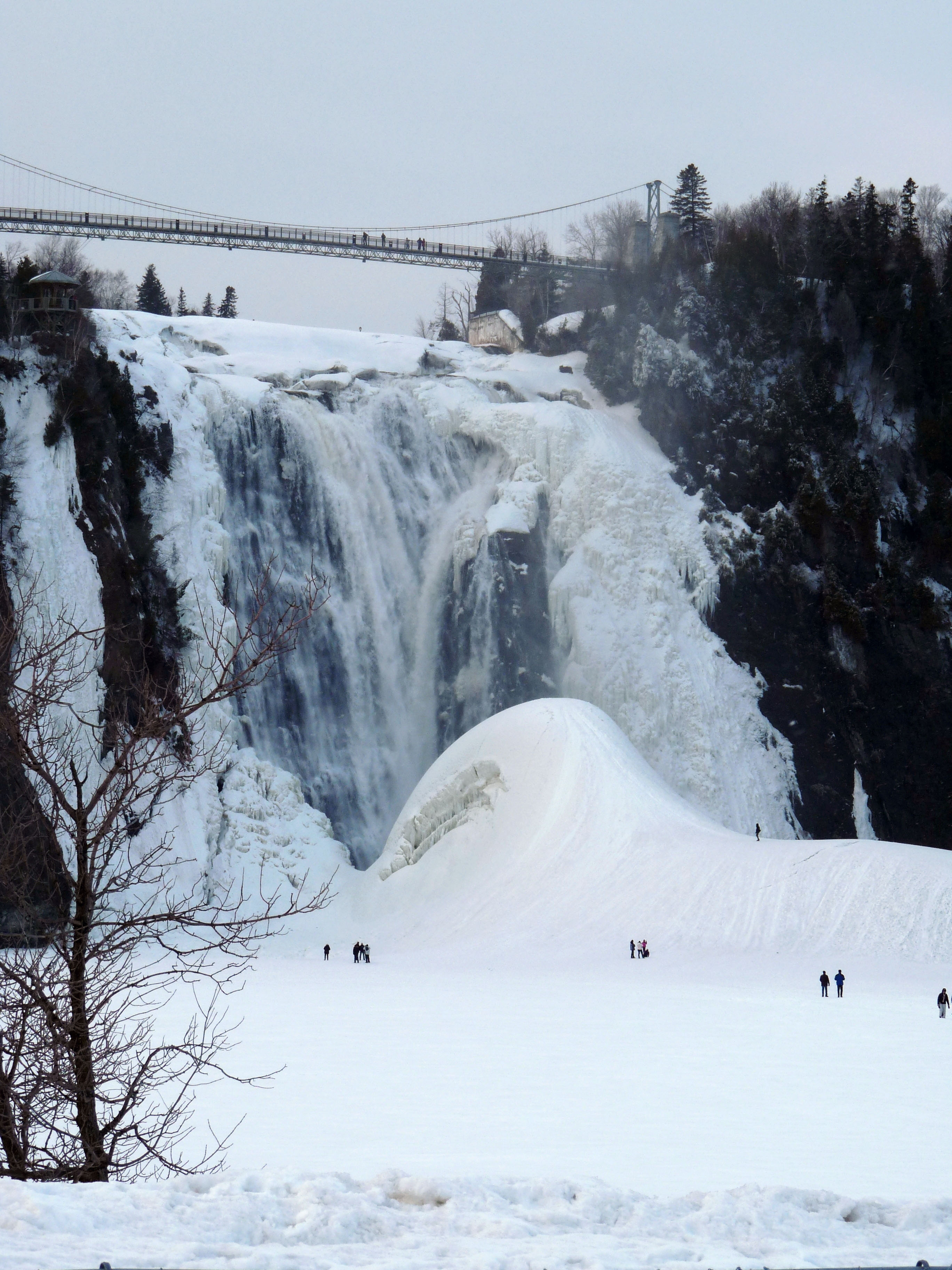 Ice formation at the foot of Montmorency Falls, juste east of Quebec City (Canada), called Pain de sucre (Sugar Loaf). It is formed in winter after the surface of the river freezes and ice accumulates on it from freezing spray generated by the Falls